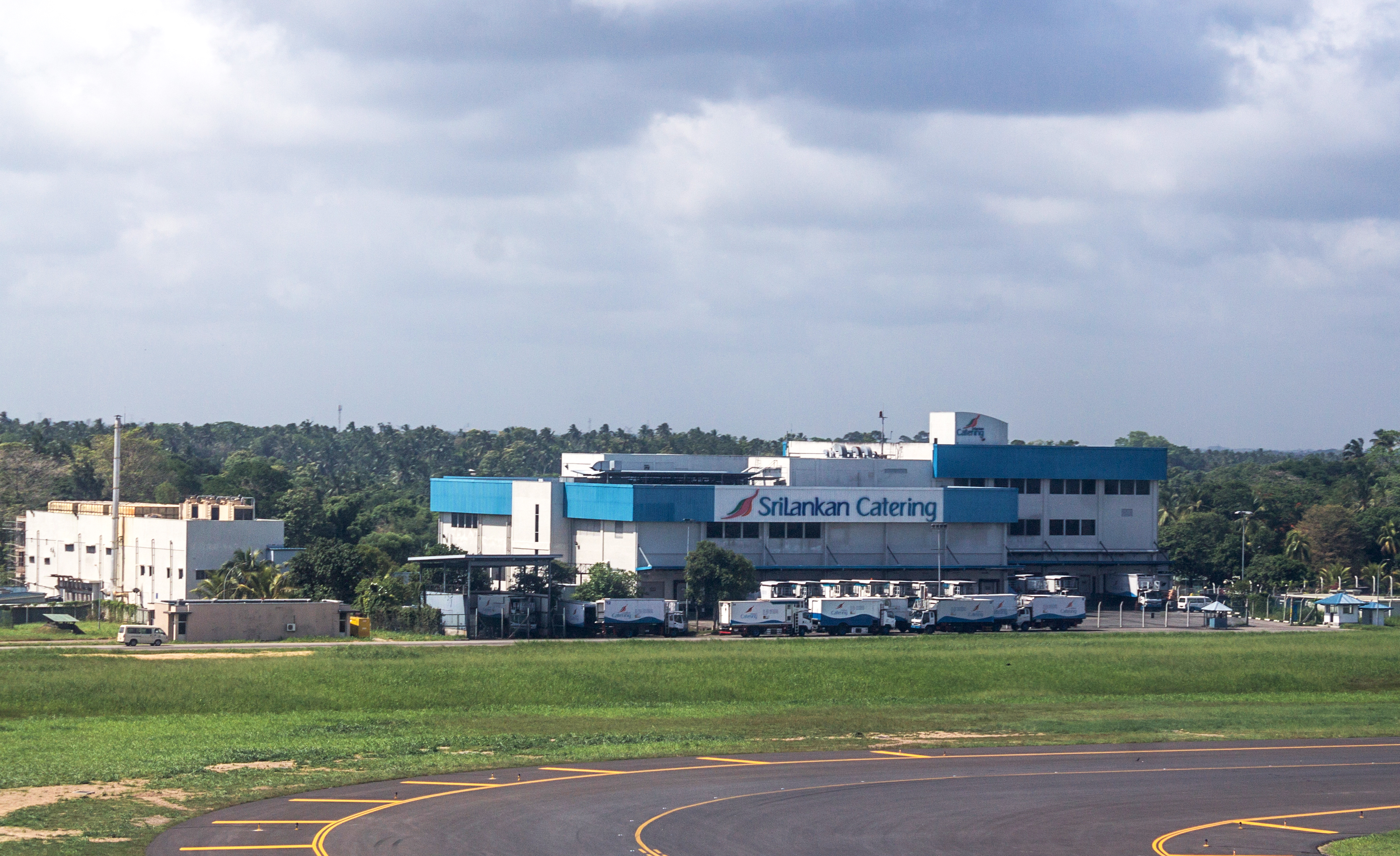 Sri Lankan Catering Services — Bandaranaike International Airport, edited for clarity and removal of distracting watermark